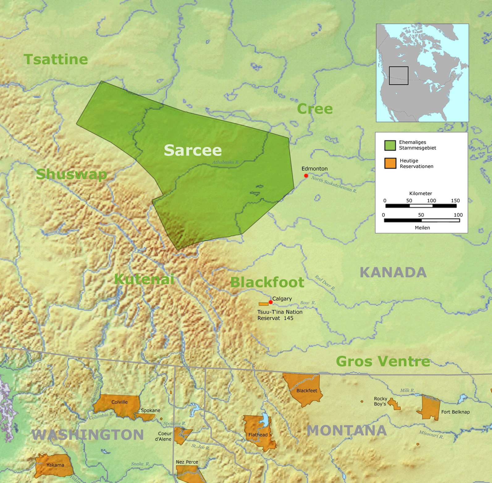 Tribal territory of Sarcee